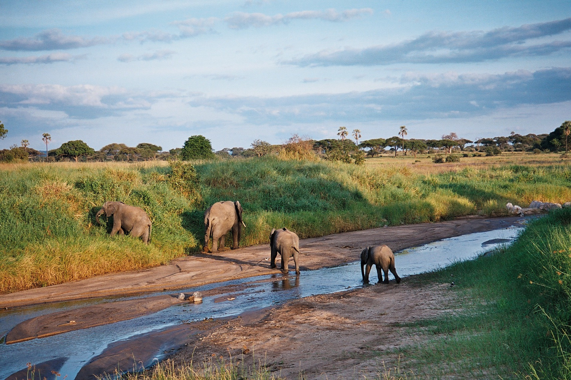 Elephants crossing Tarangire river shortly before sunset, Tarangire National Park, northern Tanzania.